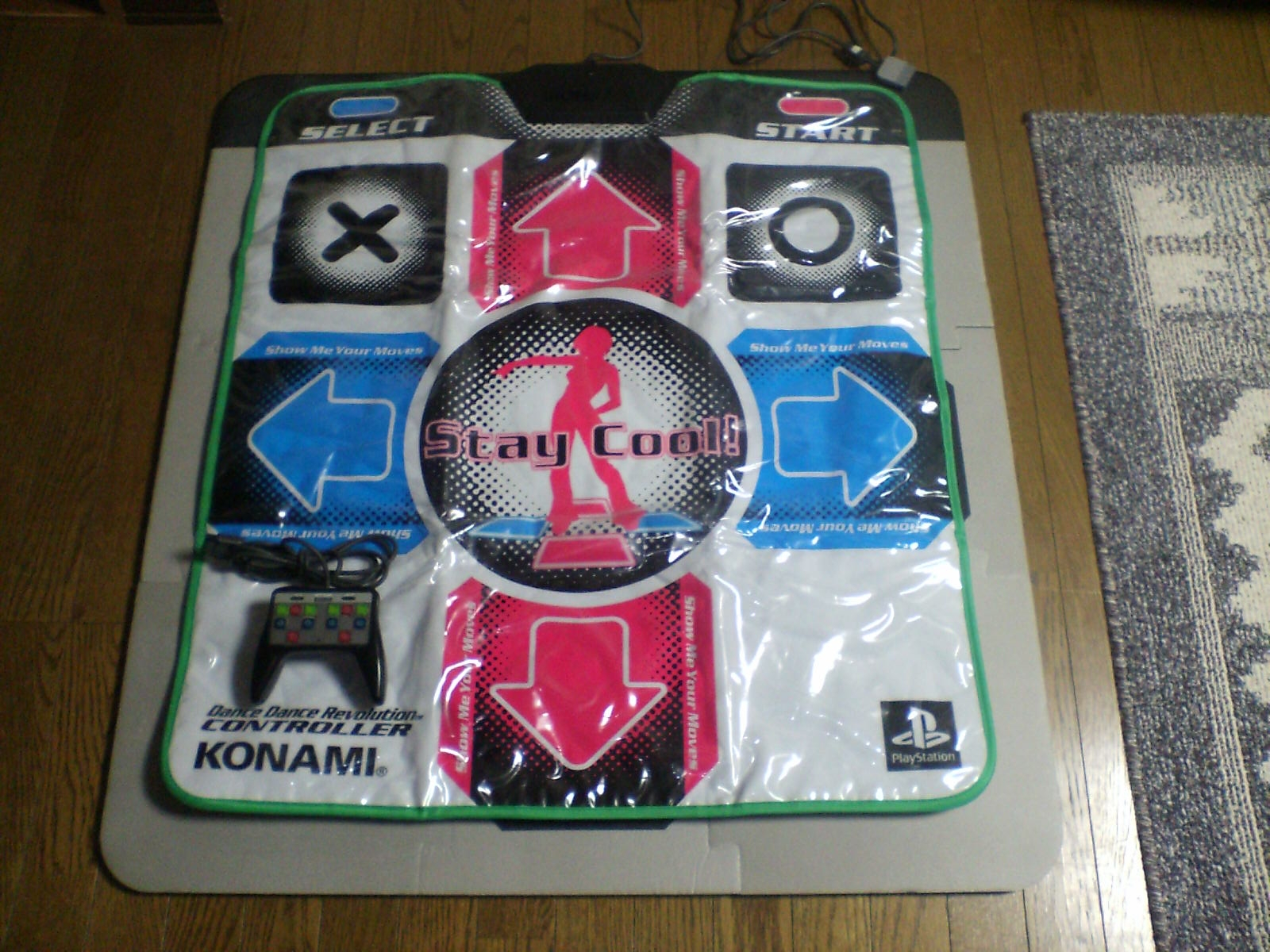 PlayStation controllerontroller for Dance Dance Revolution